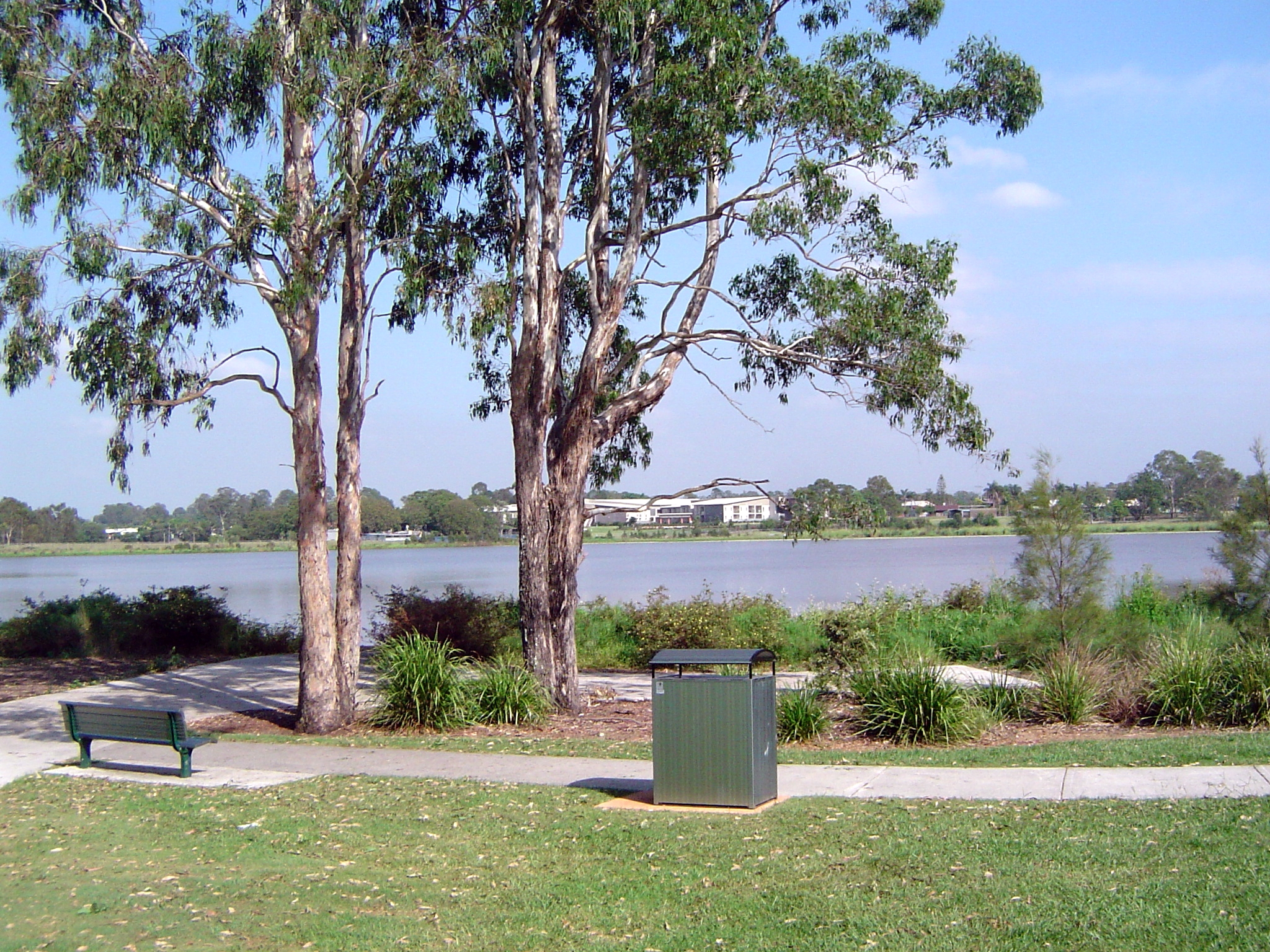 Photo of Tygum Lagoon, Waterford West, Logan City, Queensland, Australia.